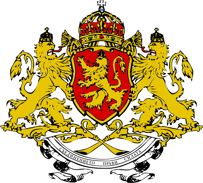 Coat of Arms of Kingdom of Bulgaria